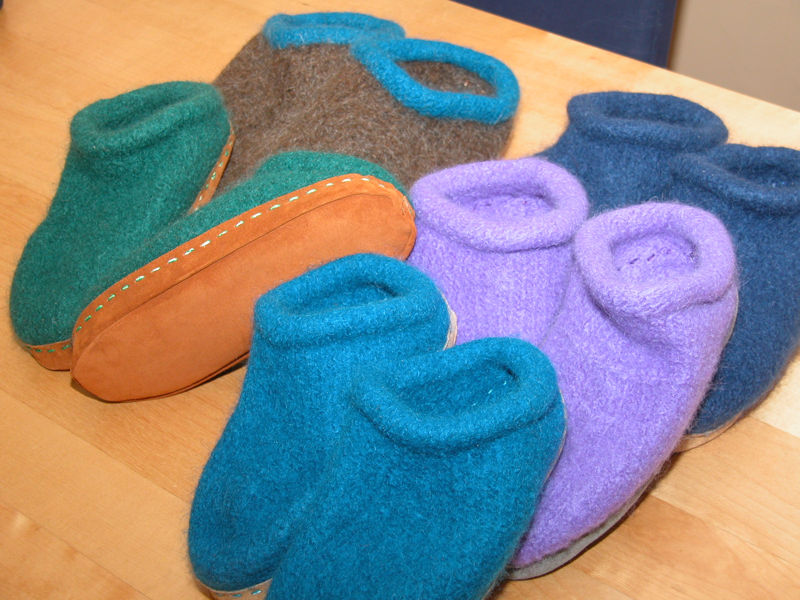 For Christmas 2004, I went all out and knit up a storm. Five pairs of felted slippers for most of the adult members of my family were just the start. Pattern used was the Fiber Trends Felted Clog and yarn used was Brown Sheep Worsted.